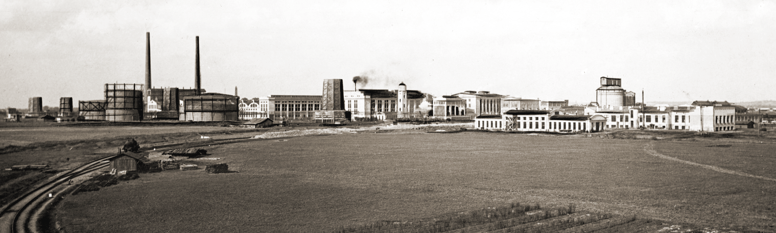 Państwowa Fabryka Związków Azotowych w Mościcach - panorama